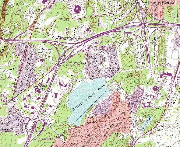 Faithful copy of a work of the United States Geological Survey, 1990.